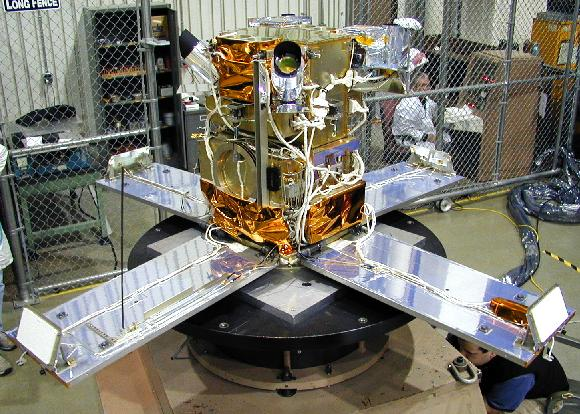 HETE-2 satellite before launch